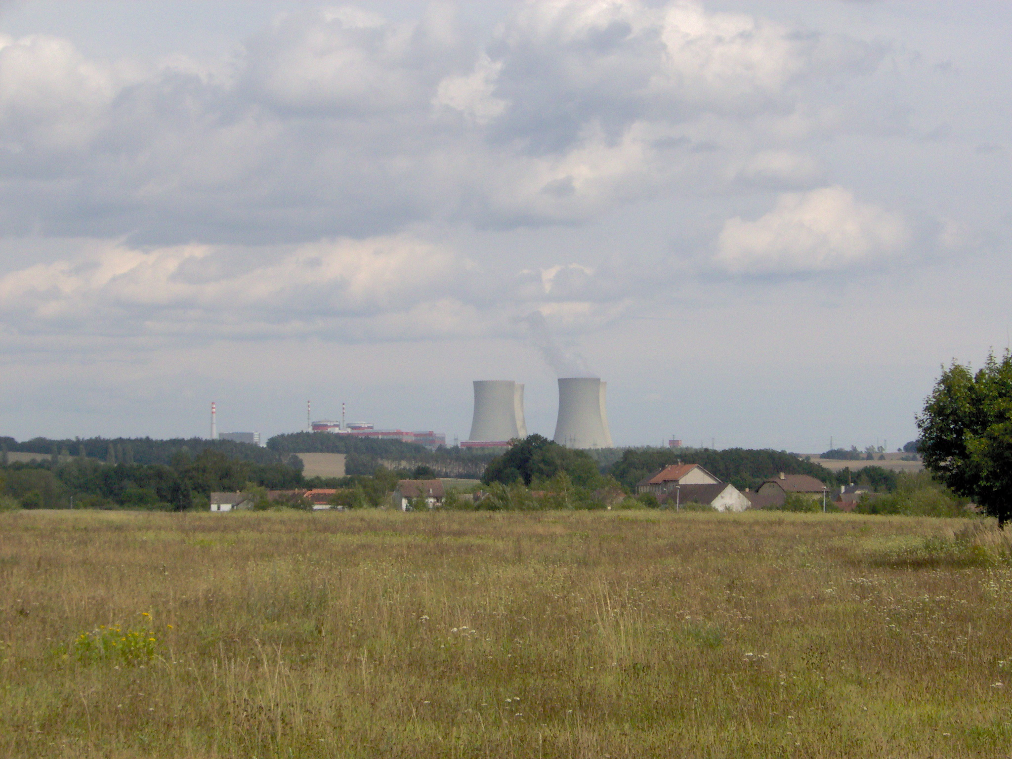 View of Temelín Nuclear Power Station from meadow above Lhota pod Horami, part of village Temelín.